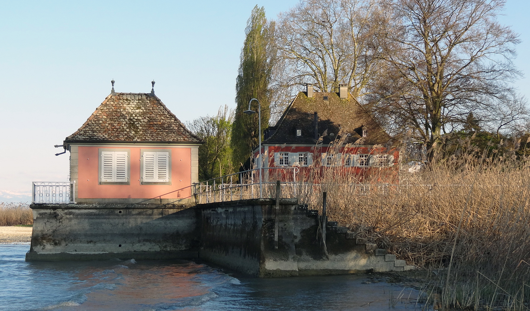 Landhaus Schloss in Güttingen, Switzerland